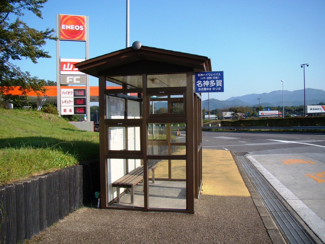 Taga Bus Stop on the Meishin Expressway eastbound line in Shiga Prefecture, Japan